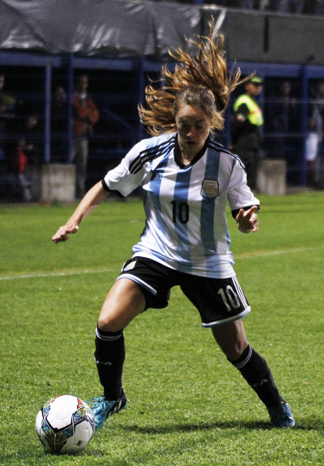 Estefanía Banini playing for Argentina in 2014 Copa América Femenina